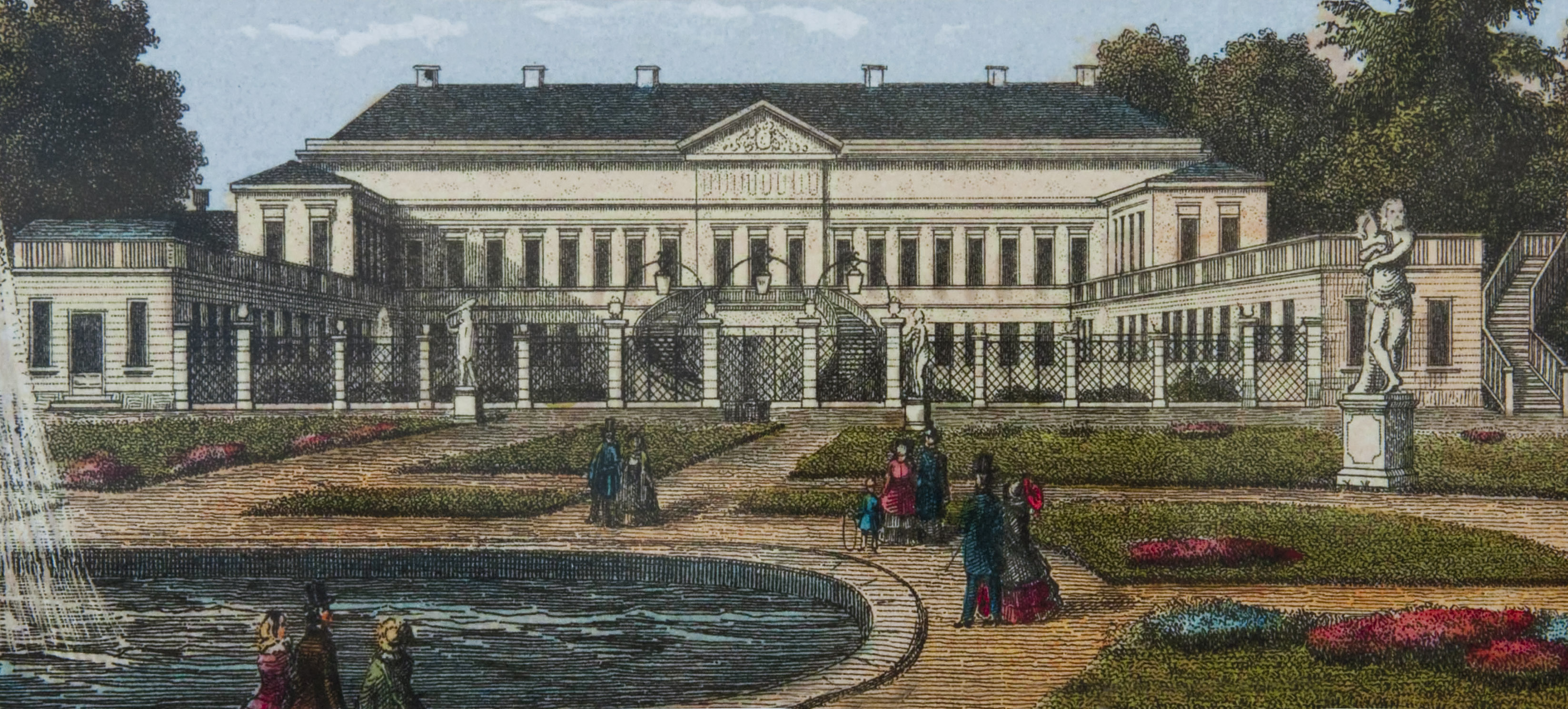 Repro of an image showing the Schloss Herrenhausen, Hannover, Germany (new building with historical façade rebuilt 2010 - 2013)